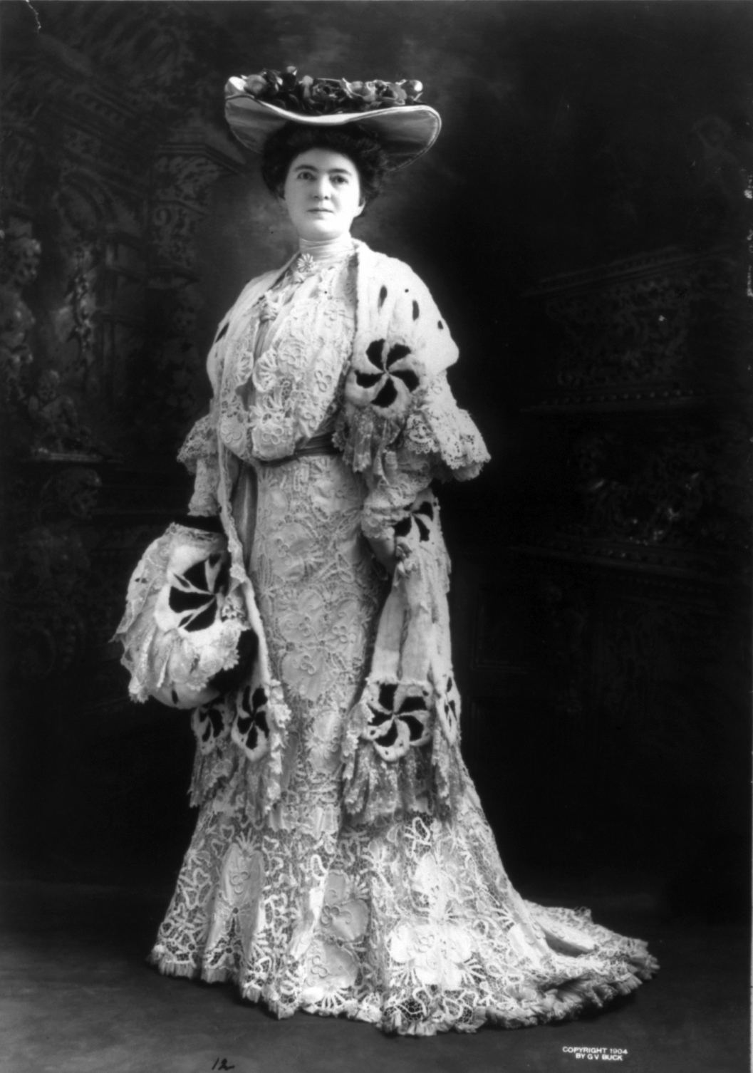 Carrie Reed Walsh, wife of Thomas Walsh